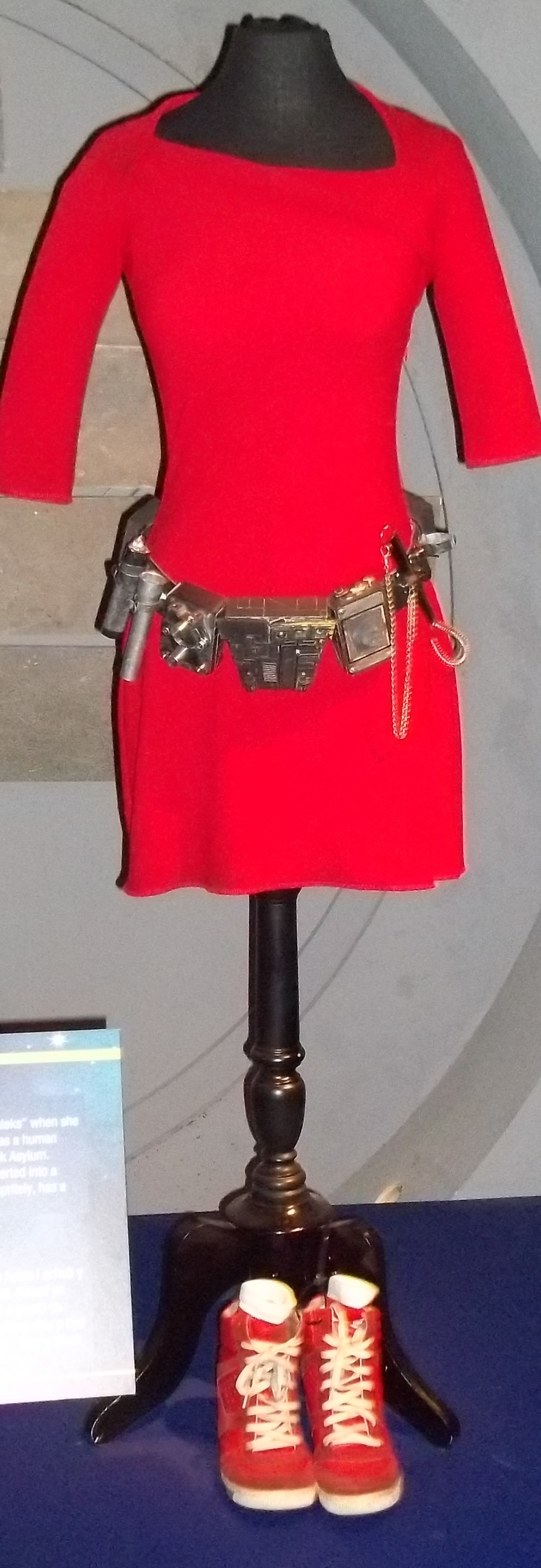 Oswin Oswald from The Dalek Asylum Doctor Who Experience